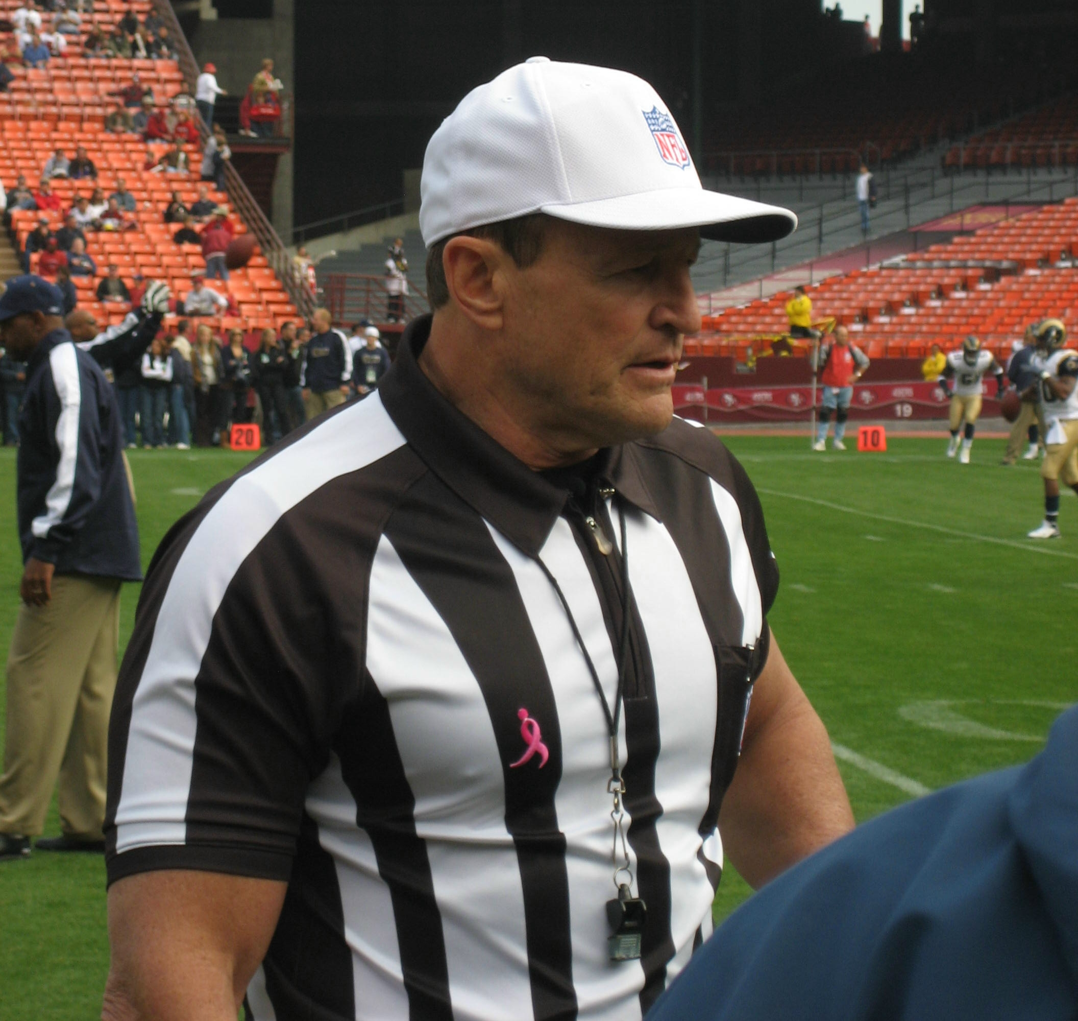 Image of National Football League official Ed HochuliEd Hochuli is even bigger in person